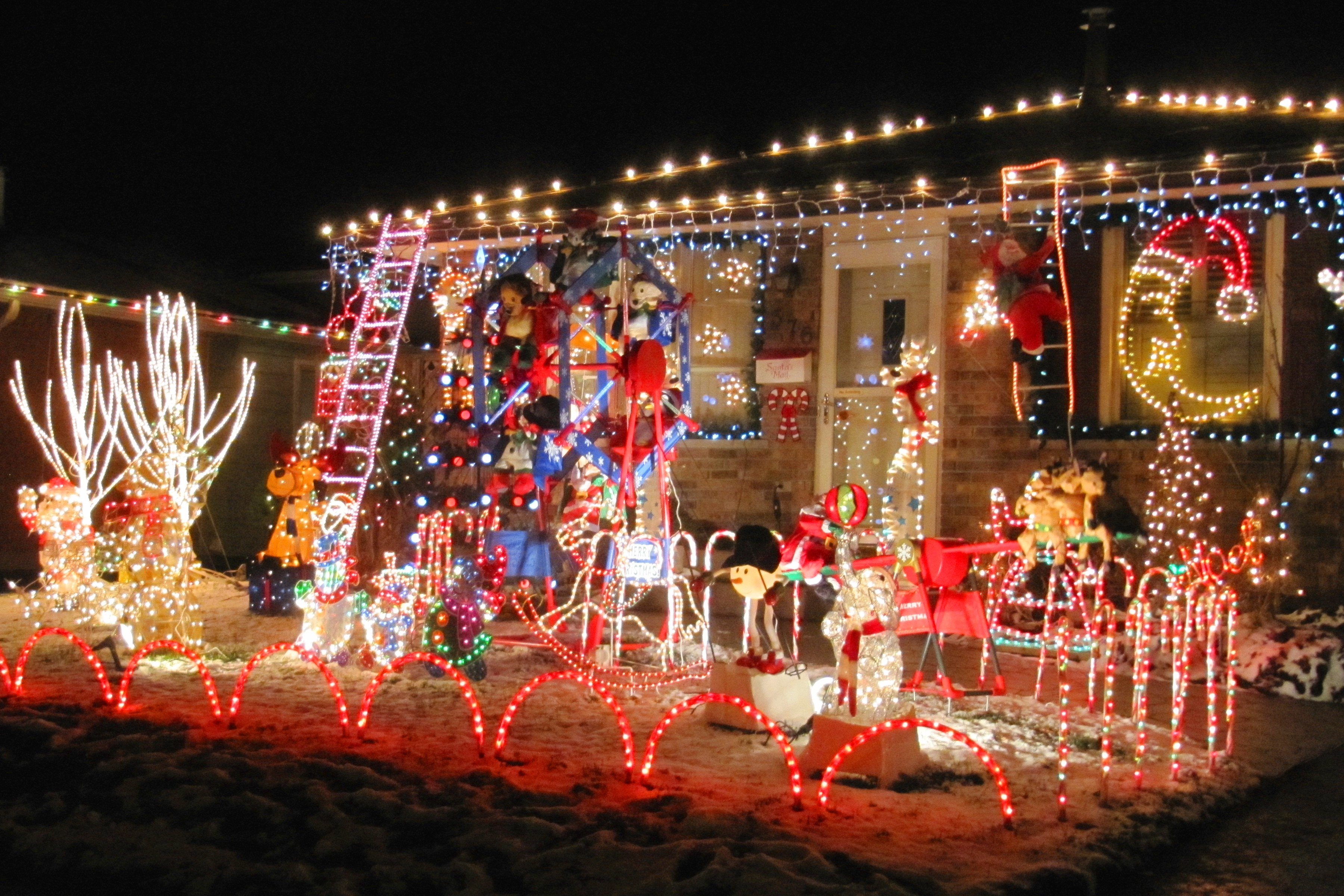 And once again we take a break from my much-delayed vacation photos, this time for a lovely seasonally-decorated house in London ON. Not bad, but I think I see a few places they could squeeze more lights in! Oh, it played music too.